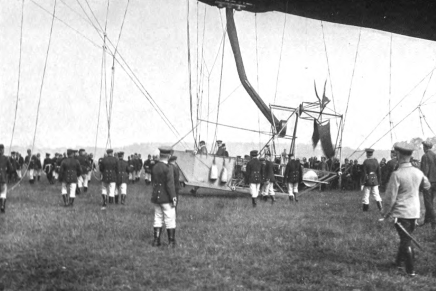 Just before lift off of the first flight of the Parseval Experimental Airship. Berlin Tegel airfield 26 May 1906. Pilot: Captain von Krogh.